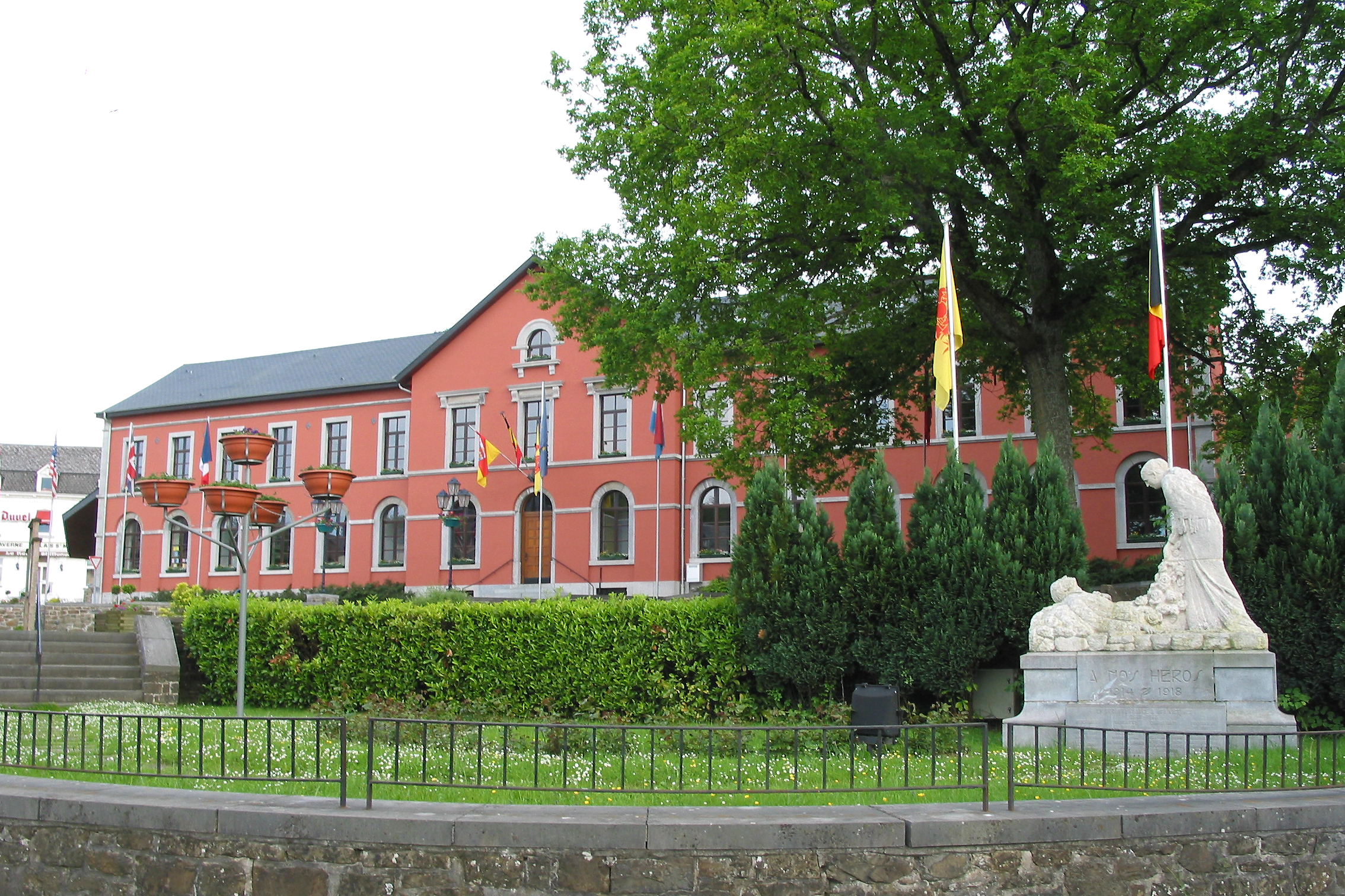 Nassogne (Belgium), memorial dedicated to the heroes of the first world war and the town hall.